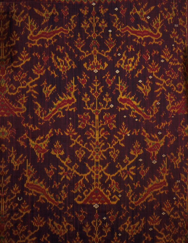 Cambodia, Kampot province, Takev (Takeo), Khmer people, 19th century Textiles Silk, resist-dyed weft (ikat), plain weave, silk thread embroidery 39 1/2 x 87 1/4 in. (100.33 x 221.62 cm) Purchased with funds provided by Mrs. Harry Lenart (AC1996.17.1) Costume and Textiles